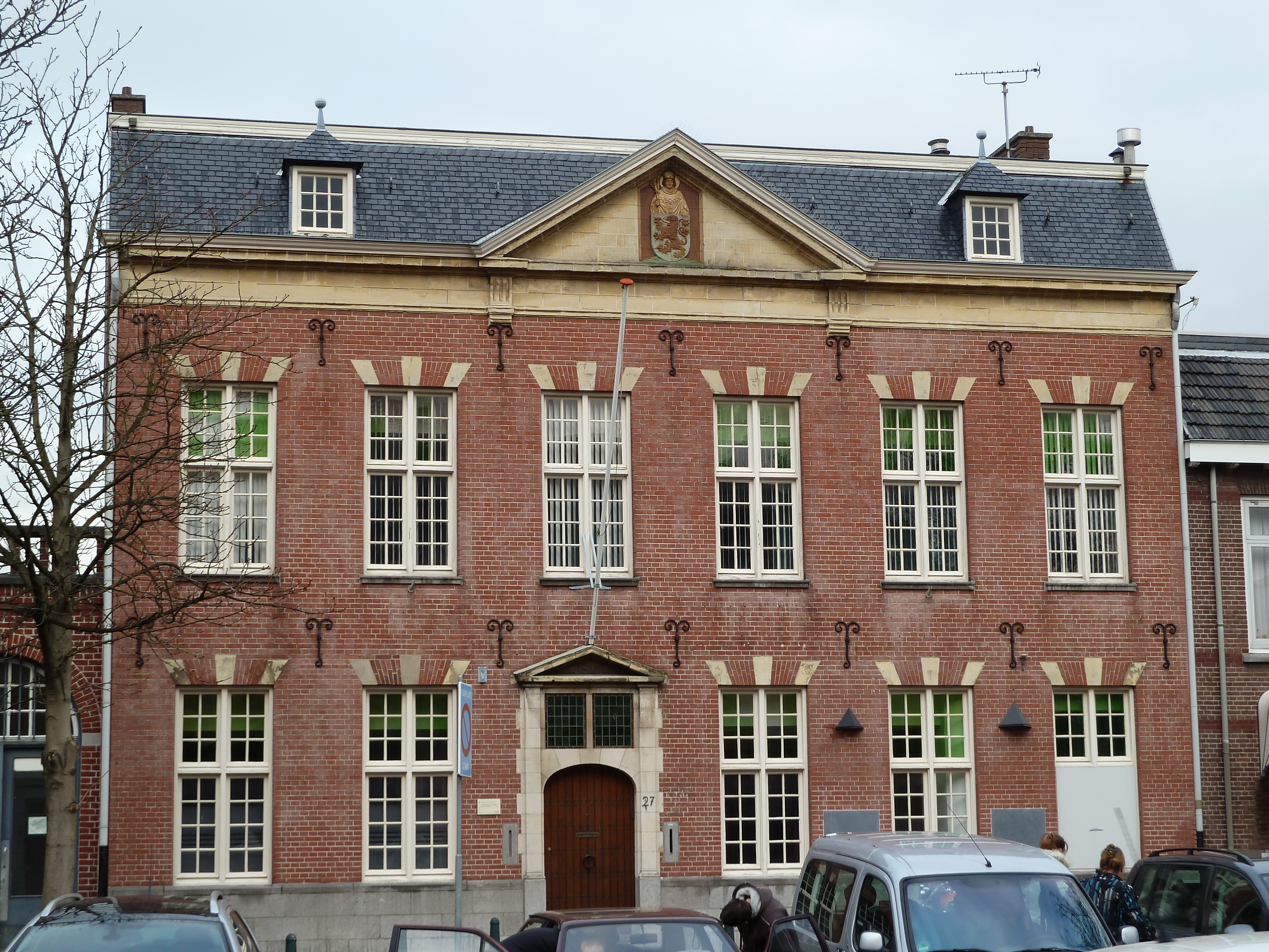 Maastrichterlaan 29, Vaals, Limburg, the Netherlands